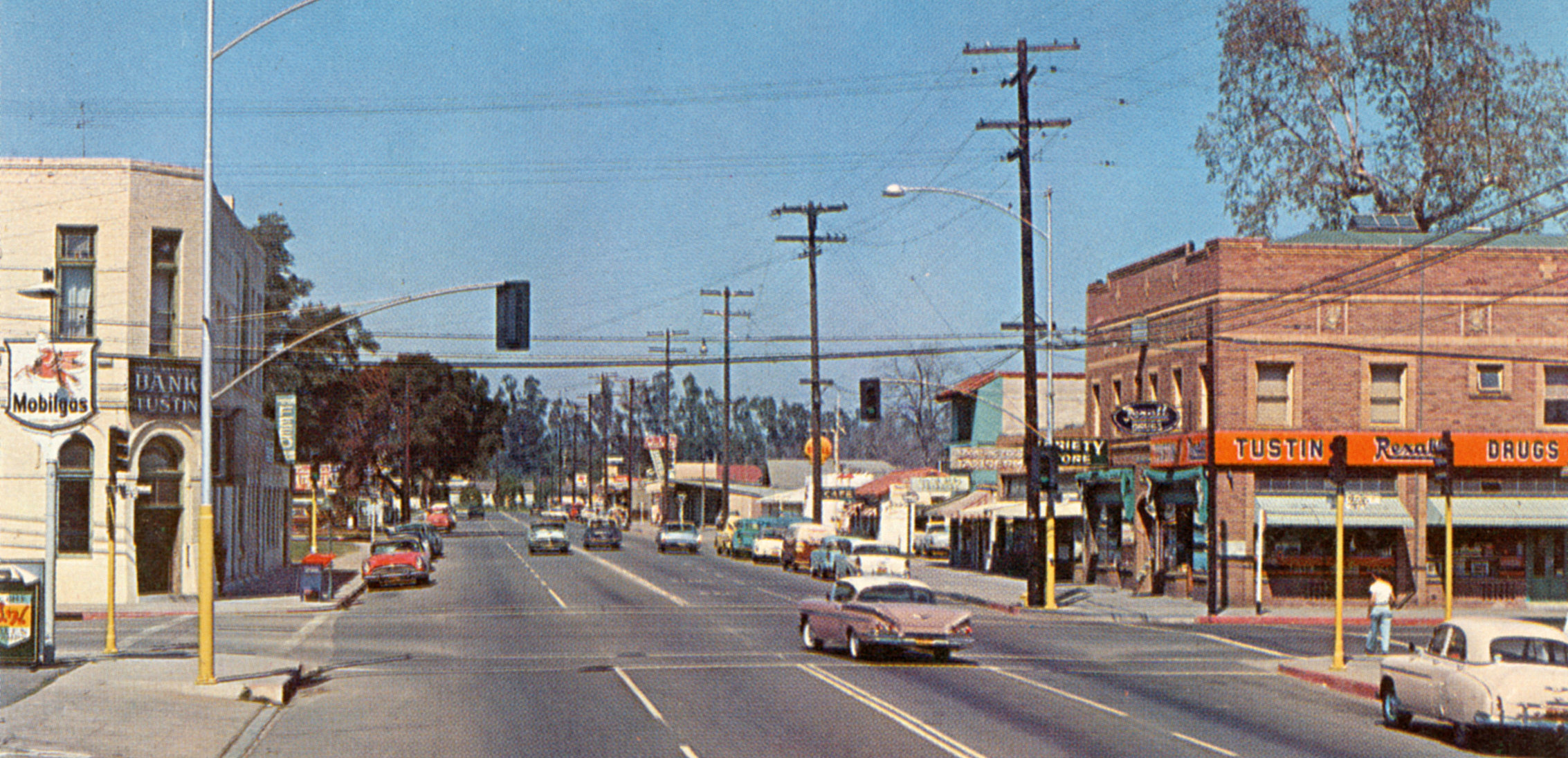 There are no known copyright restrictions on this image. All future uses of this photo should include the courtesy line, "Photo courtesy Orange County Archives." Comments are welcome after reading our Comment Policy. From the Tom Pulley Postcard Collection, Ac#2008.17.